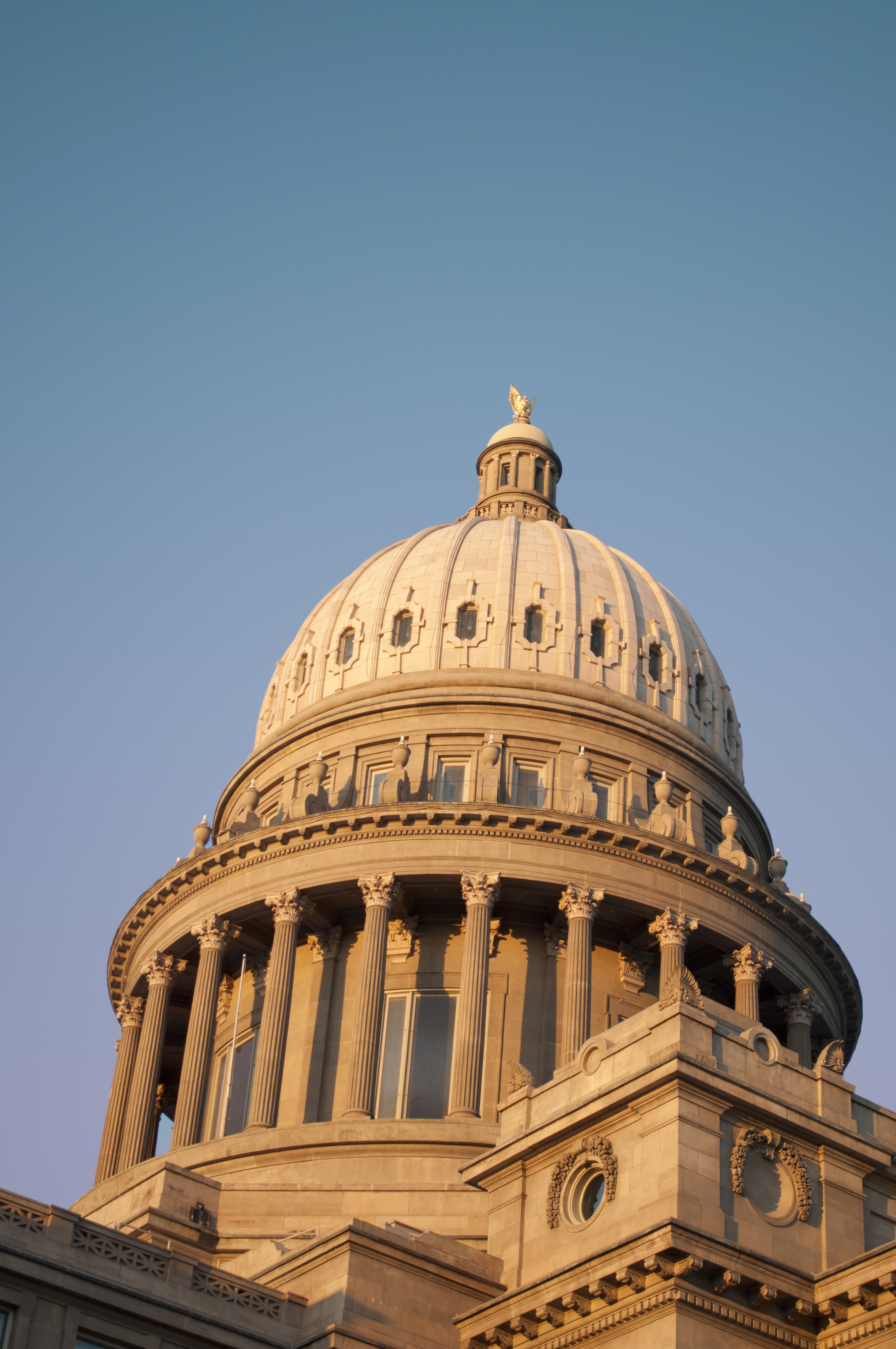 Idaho State Capitol at Sunset